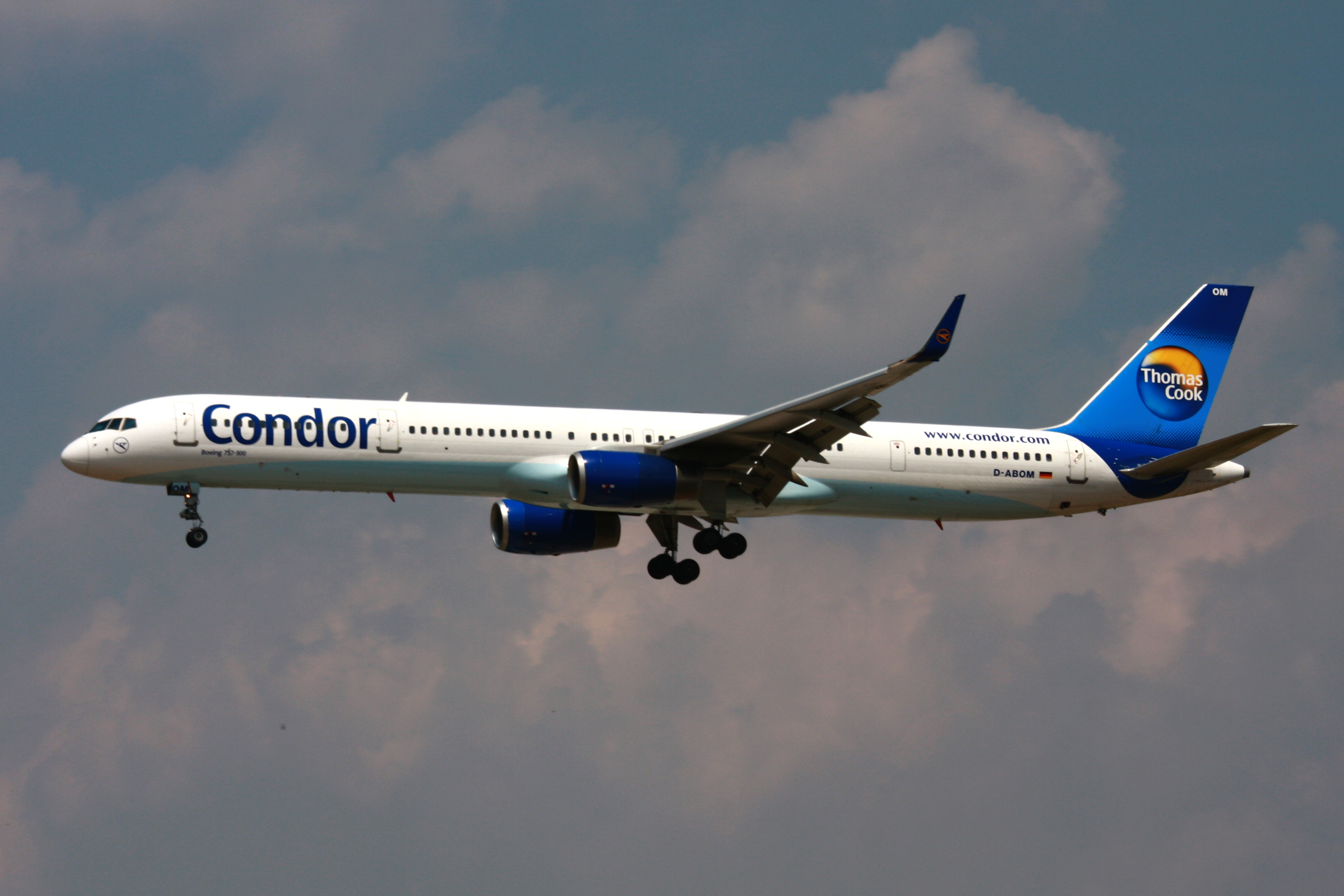 A Boeing 757-300 of Condor landing at Frankfurt Airport